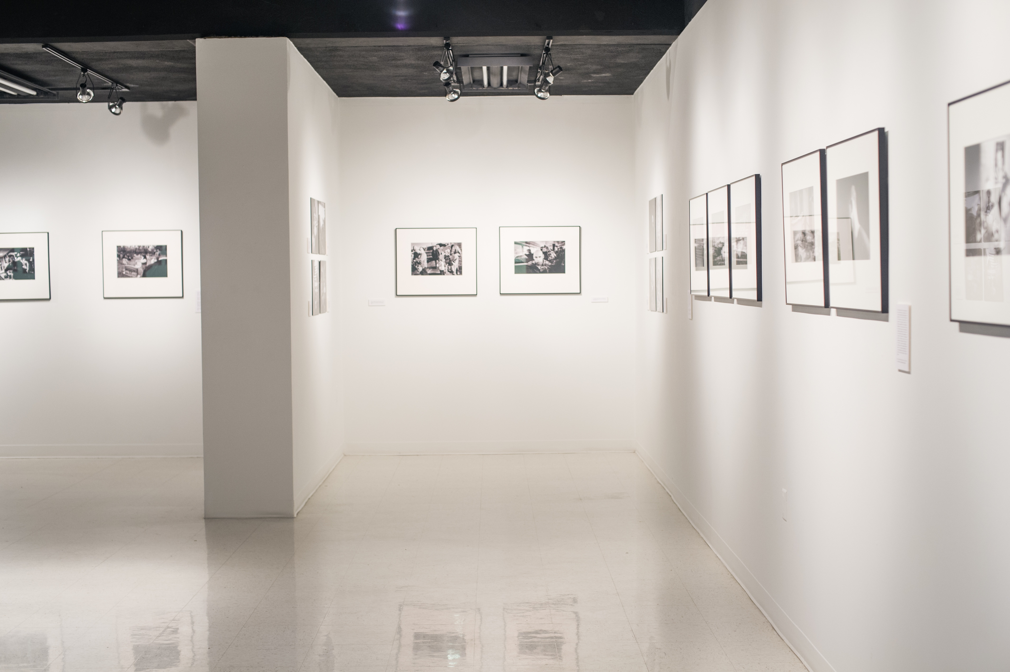 15228-event-Erin Trieb Gallery Opening-4266 Erin Trieb gallery opening at Texas A&M University–Commerce